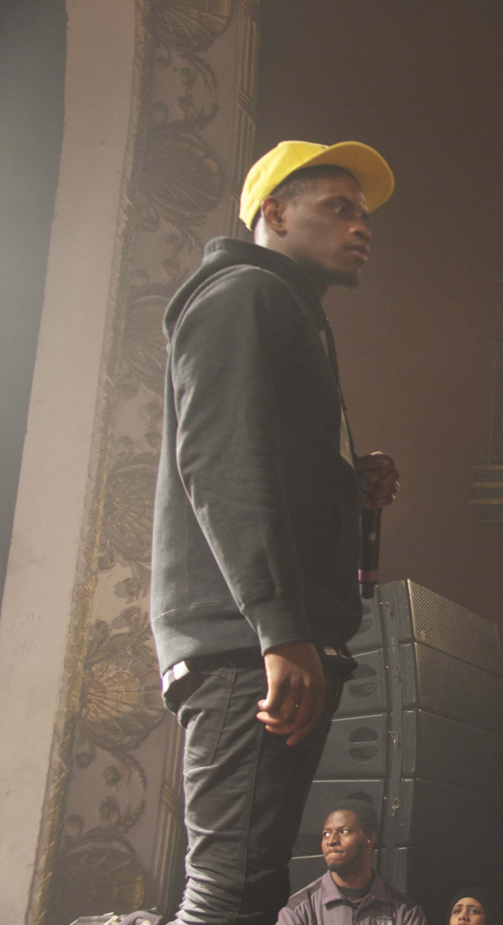 Image of American rapper A$AP Nast